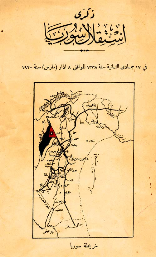 Book of the Independence of Syria (ذكرى استقلال سوريا). Shows the declared borders of the Kingdom of Syria and states the date of the Declaration of Independence 8 March 1920. Youssef al-Sioufi (يوسف السيوفي), printed in Taha Ibrahim (طه إبراهيم) and Youssef Berladi (يوسف برلادي) Press in Egypt in 1920